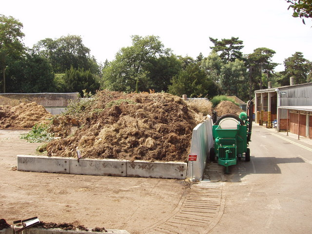 Compost heap, Kew Gardens. This is claimed to be one of the largest compost heaps in Britain. Kew is proud that it recycles 99% of organic material from the gardens.